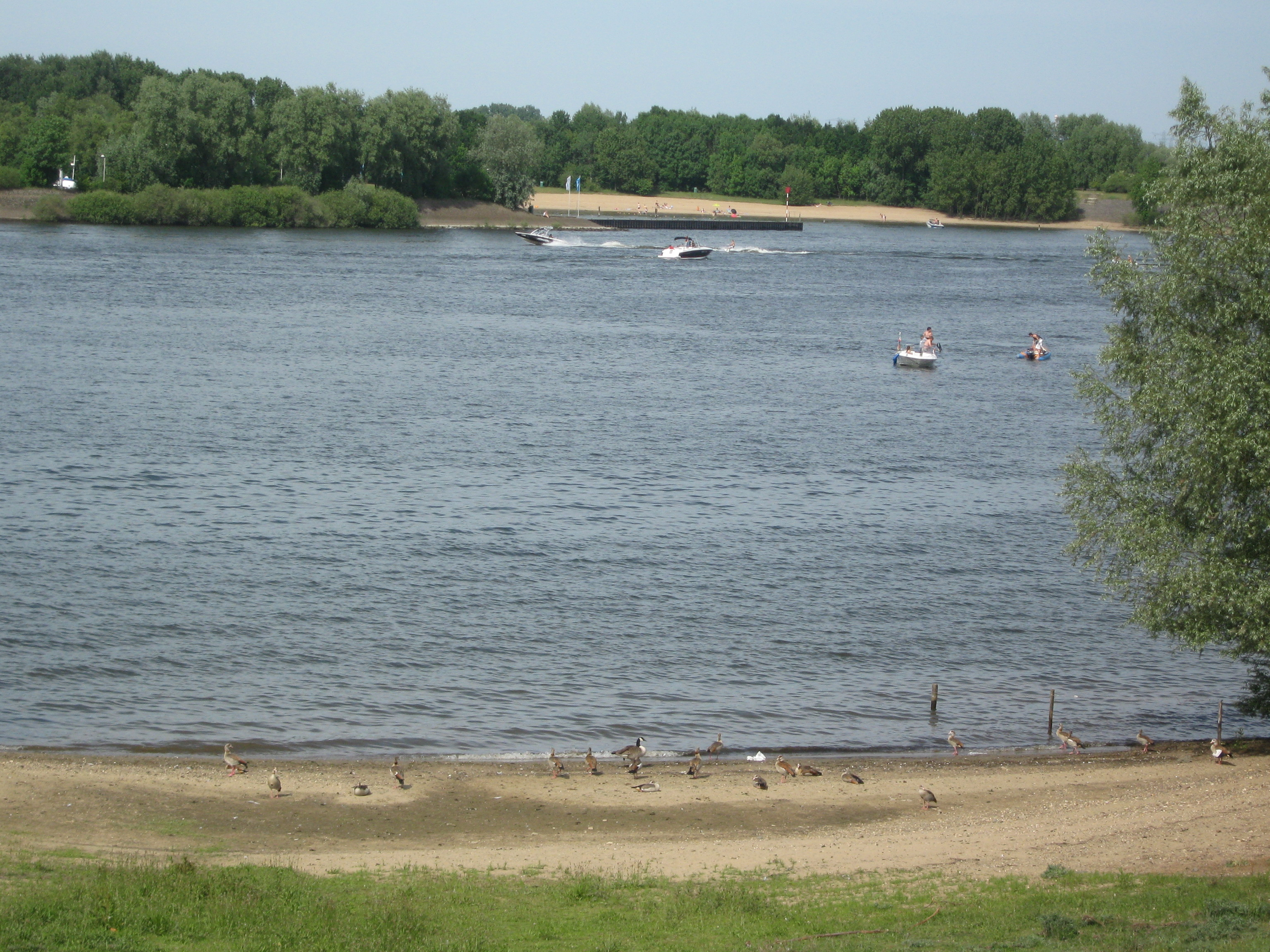 Picture of the lake at recreation park Heerenlaak, Maaseik, Belgium